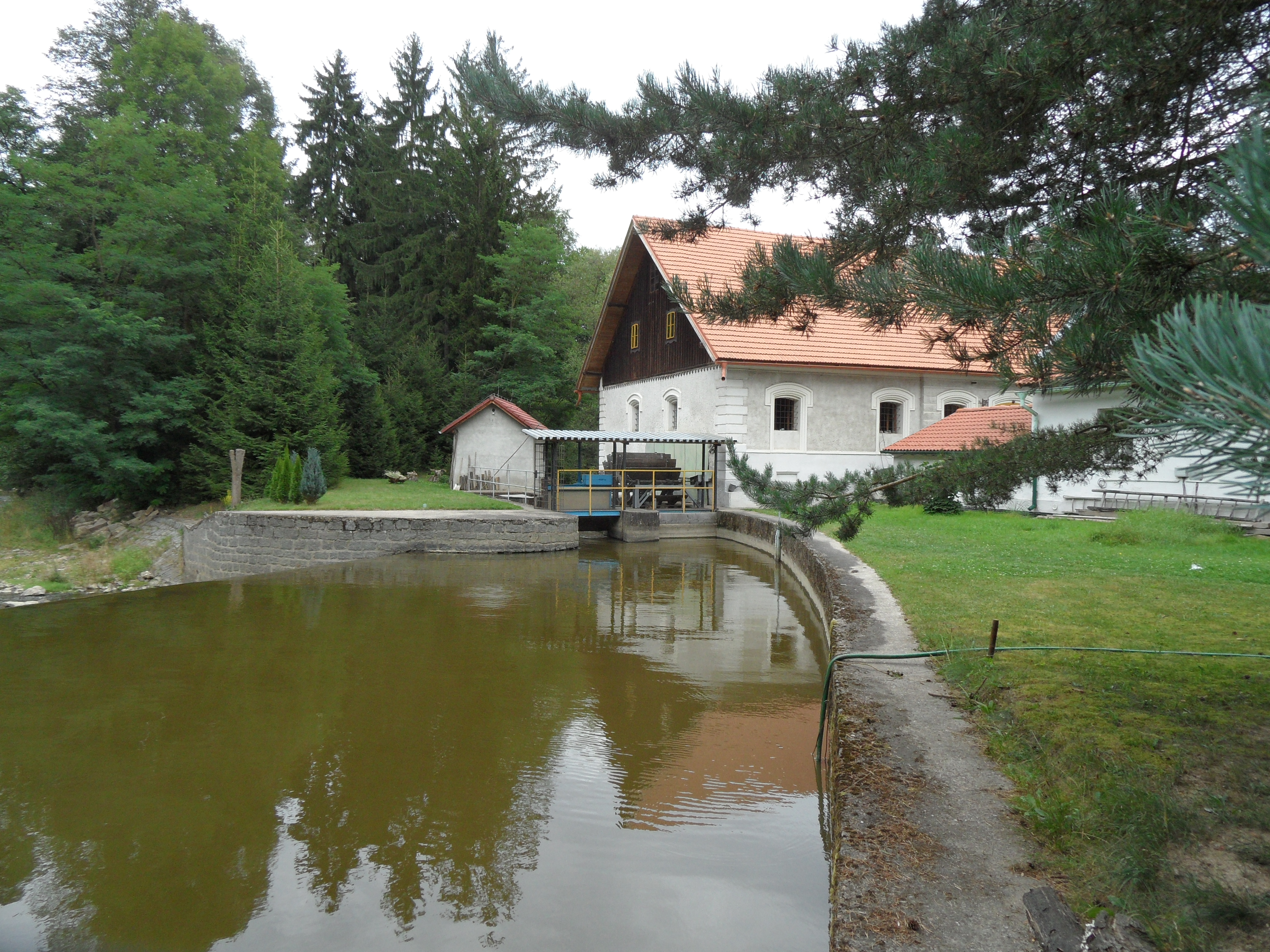 Budčice, a water mill (technical monument), Kutná Hora District, the Czech Republic.